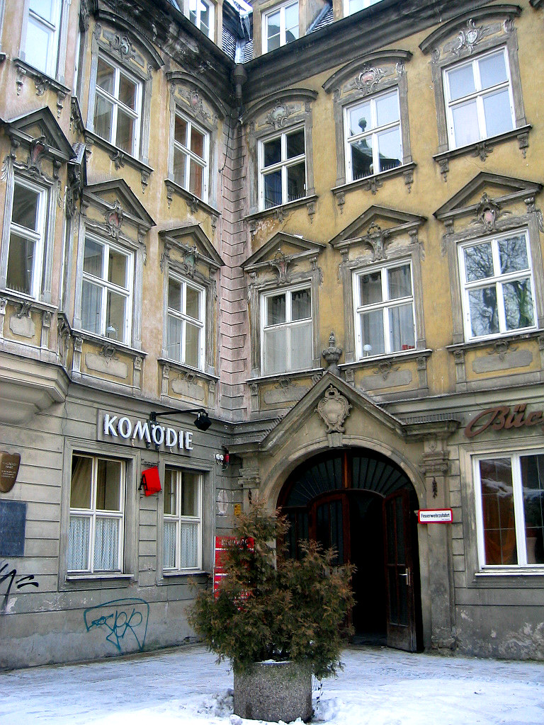 Augsburg, Germany: Komödie (theatre) Photographed by Andreas Praefcke, February 2003